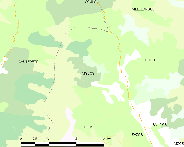 Map of French municipality